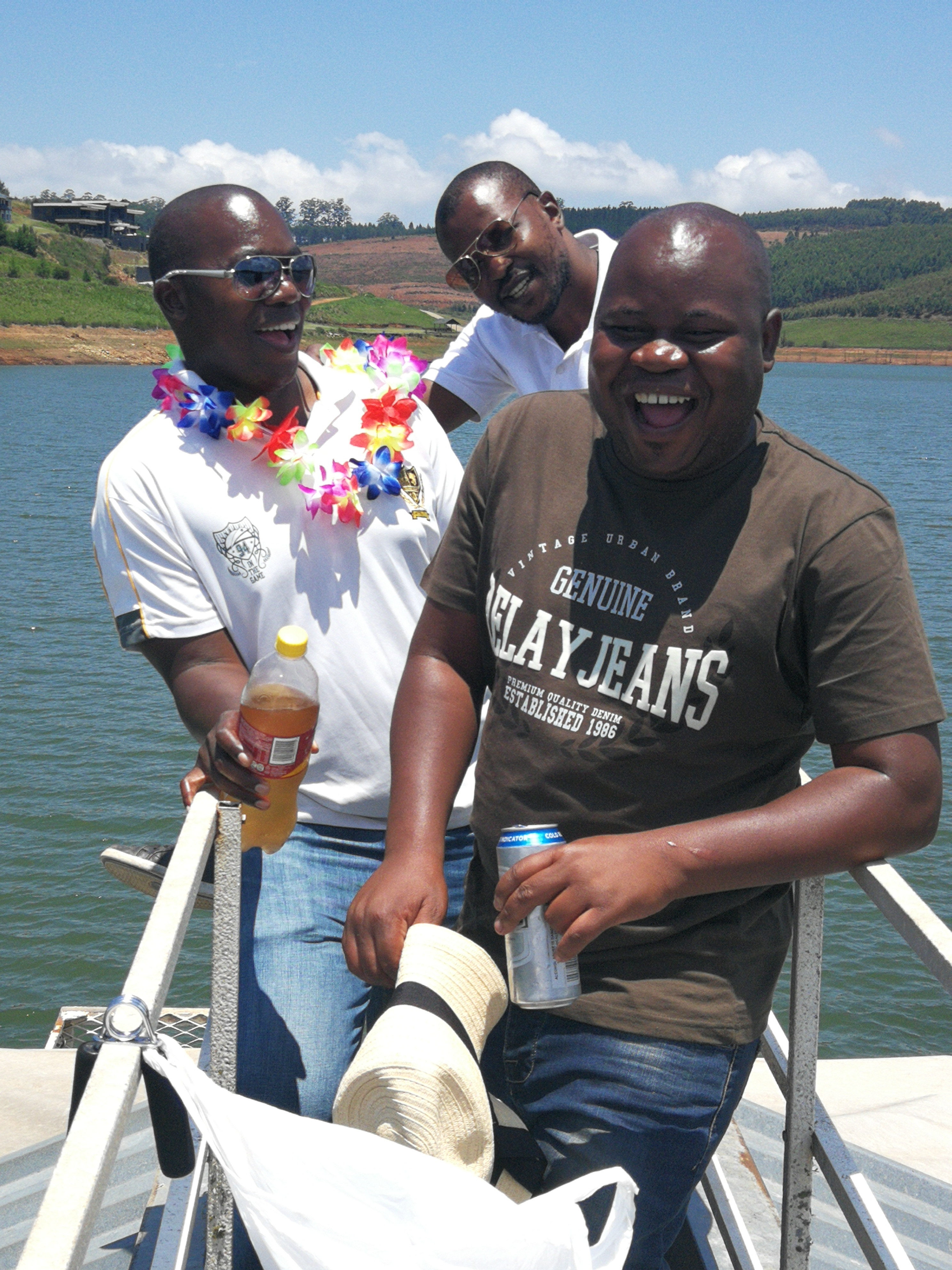 Away from work and cultural getaways. This is an image with the theme "Play" from: South Africa